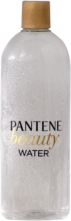 Water Bottle